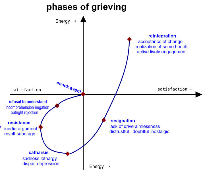 Edited version of the original (Kübler Ross grieving curve) by Bertrand GRONDIN - Wikimedia image in French relabelled in English, CC BY-SA 4.0